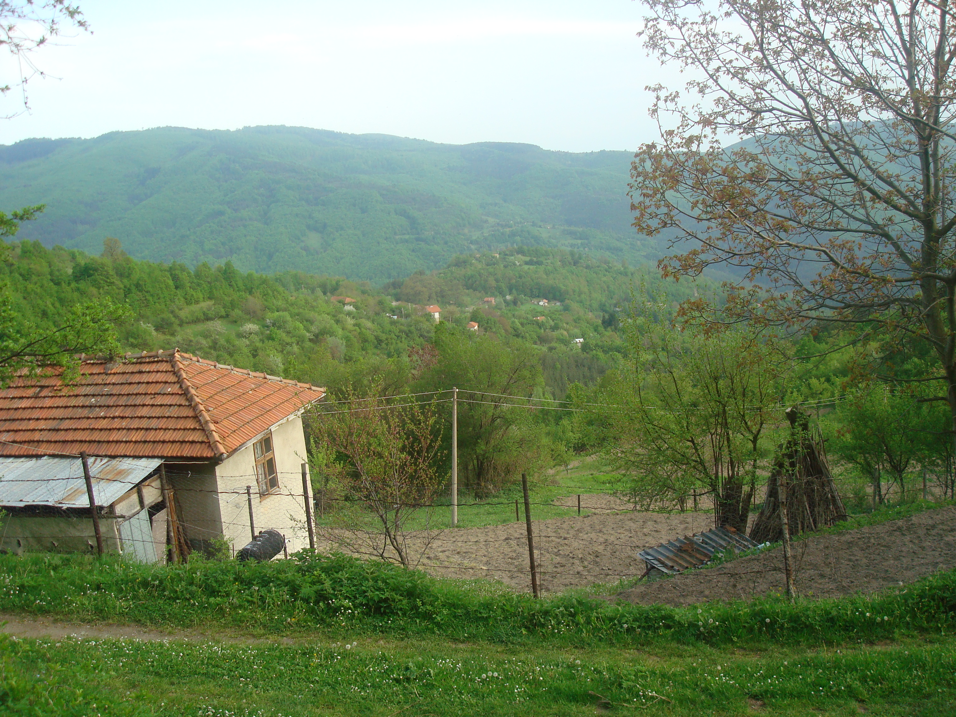 Small garden overlooking a hamlet in Leskovdol